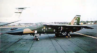 General Dynamics F-111F (S/N 70-2366) of the 366th Tactical Fighter Wing, Mountain Home Air Force Base, Idaho. This photo was taken at Langley Air Force Base, Va., in March 1976.